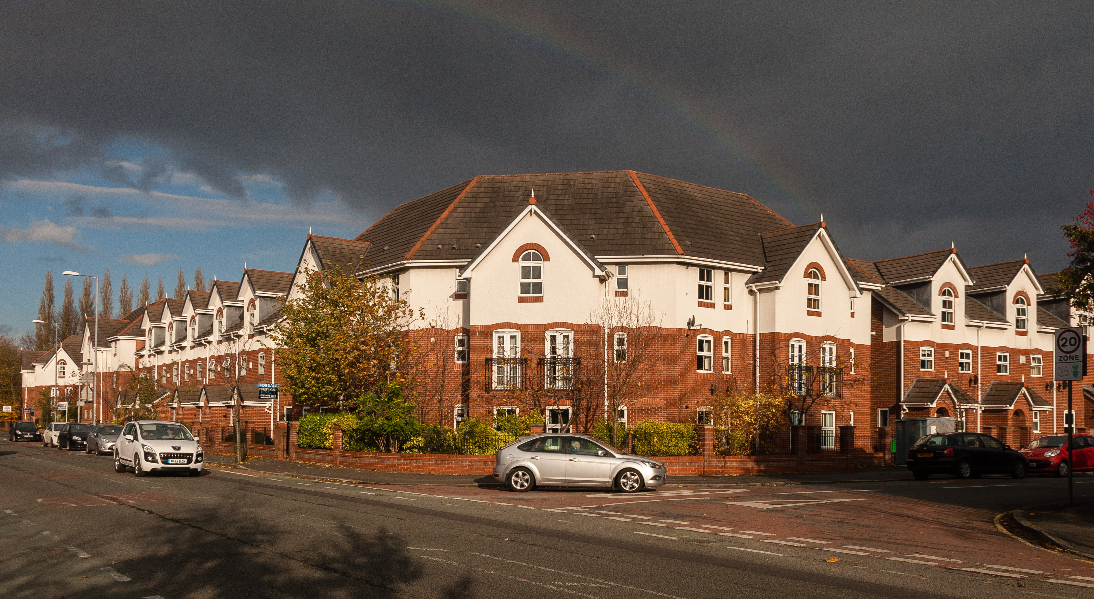 Whimberry Way, off Parrs Wood Road, Burnage, the former site of Burnage High School (Lower School building)